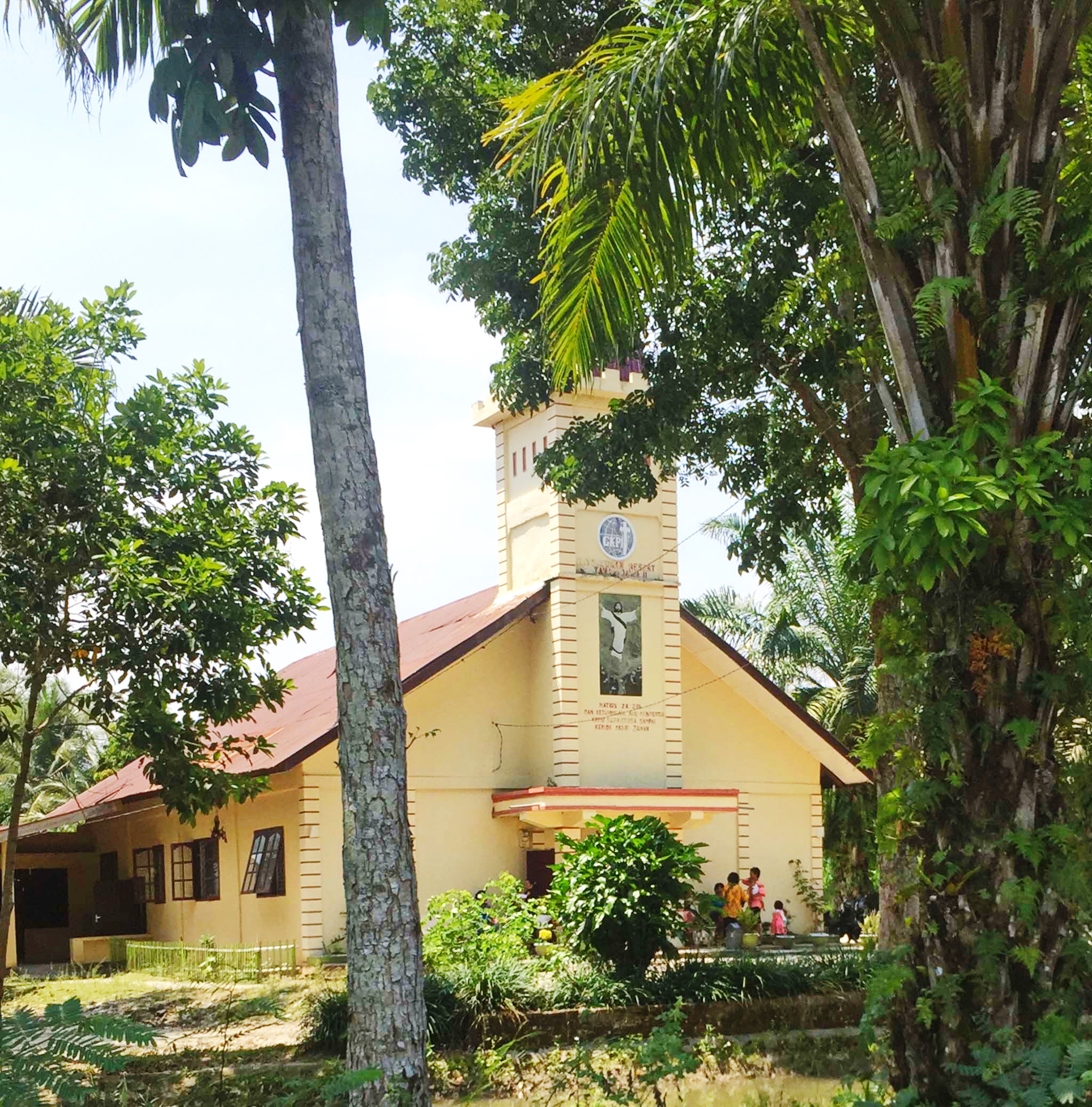 GKPI Hatonduhan, Res. Tanah Jawa II Church in Hatonduhan, Simalungun